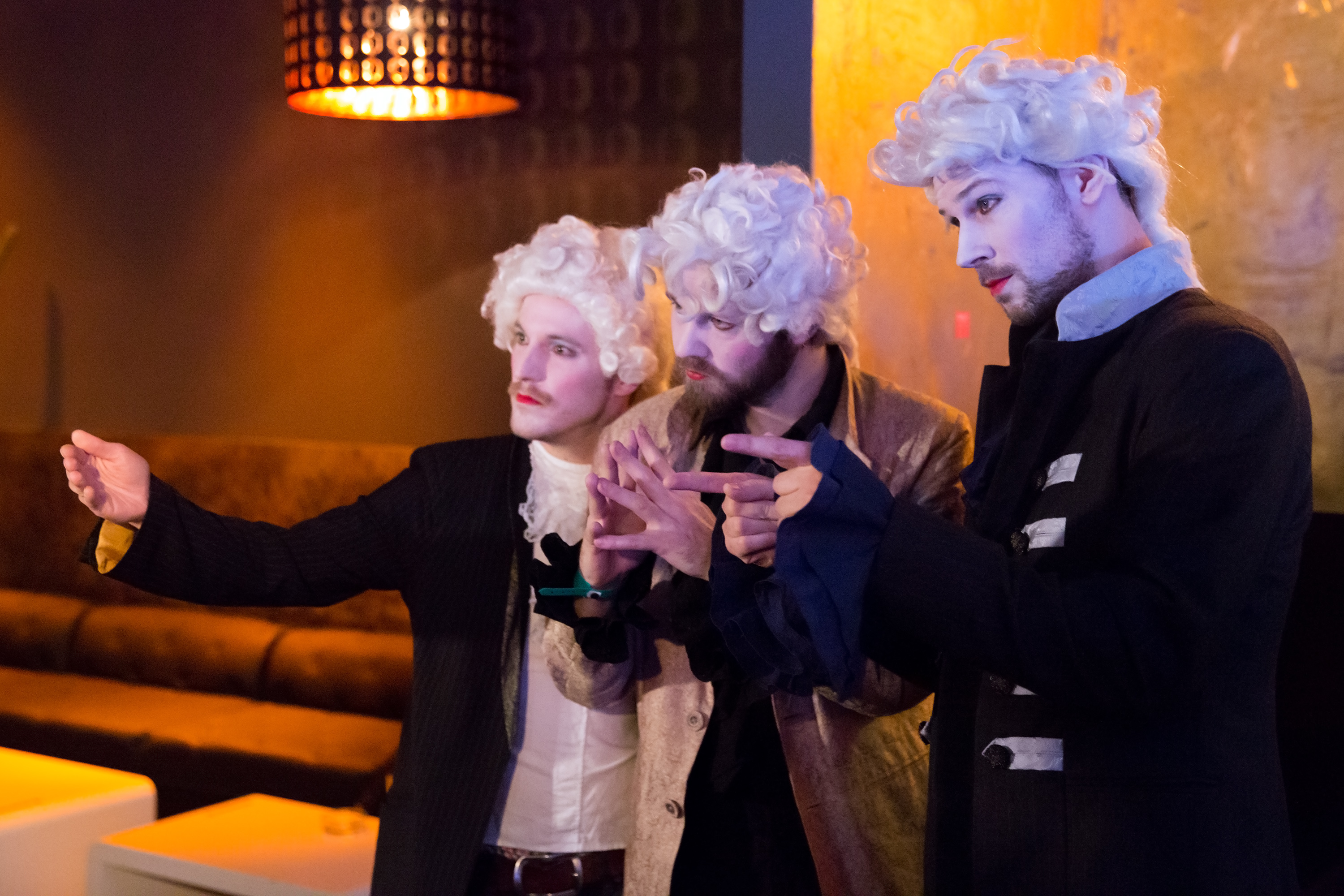 Johann Sebastian Bass at the concert of the Austrian candidates for participating at the Eurovision Song Contest 2015; Chaya Fuera, Vienna,Austria.